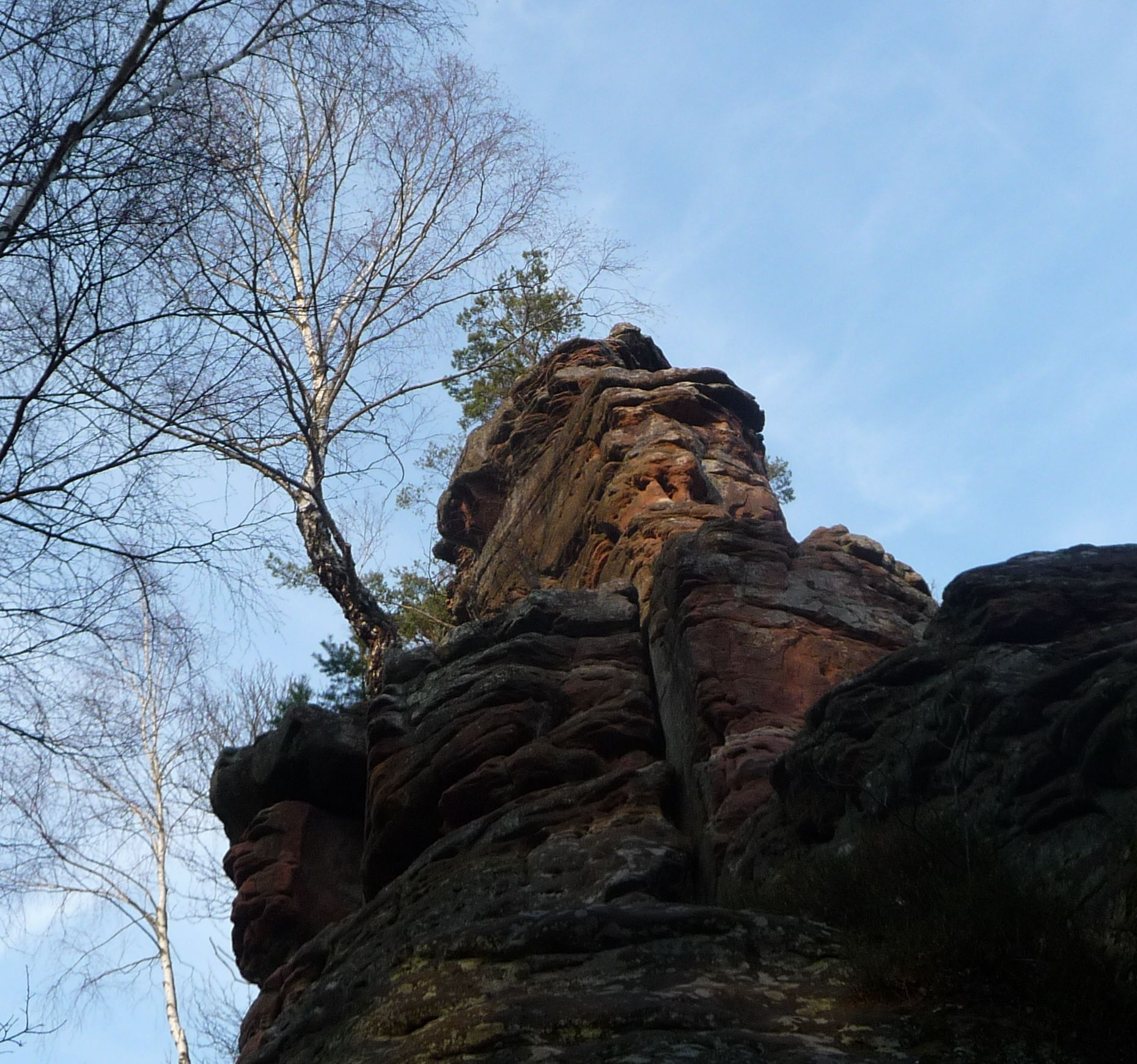 Gossersweiler-Stein